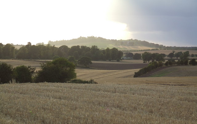 Fields between Grange of Barry and Woodhill